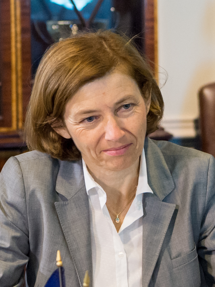 Secretary of Defense Jim Mattis meets with Florence Parly, France's minister of defense, at the Pentagon in Washington, D.C., Oct. 20, 2017. (DOD photo by U.S. Air Force Staff Sgt. Jette Carr - 171020-D-GY869-087)